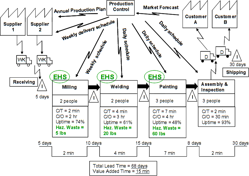 Current State Value Stream Map with Environmental Data